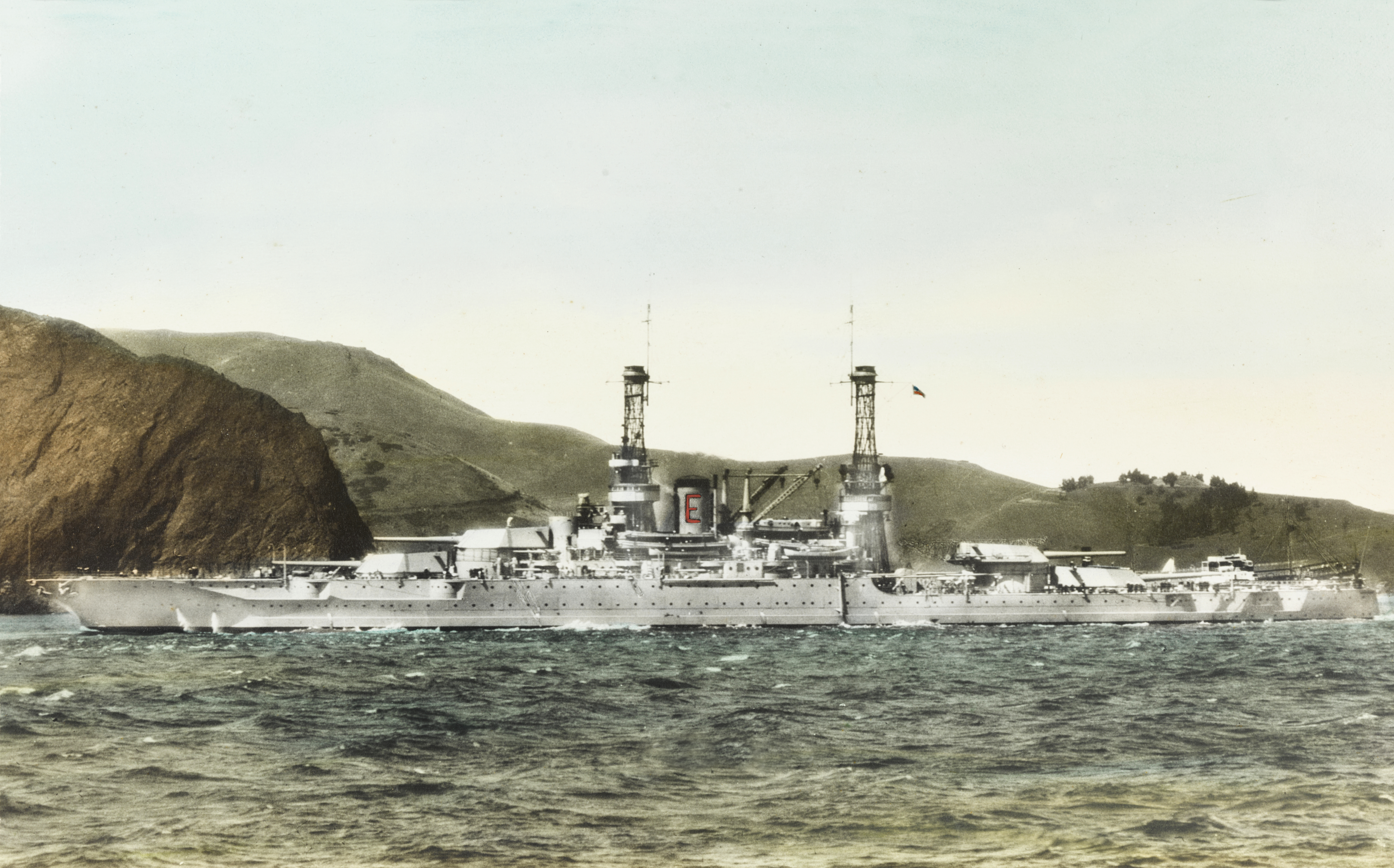 The U.S. Navy battleship USS Mississippi (BB-41) underway, circa in the early 1920s, before the addition of catapults.